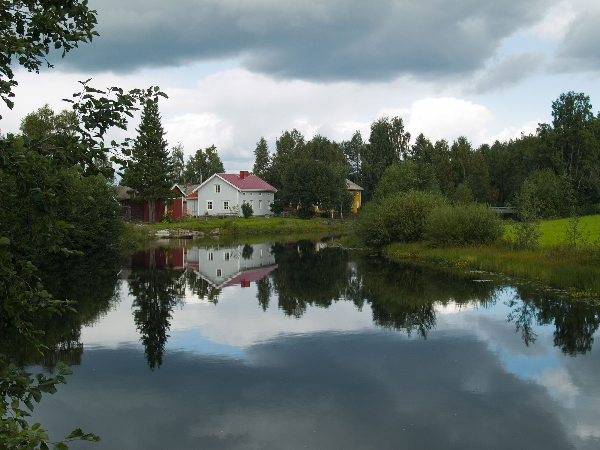 Kihnianjoki at Kalakoski, Peraseinajoki, Seinajoki.